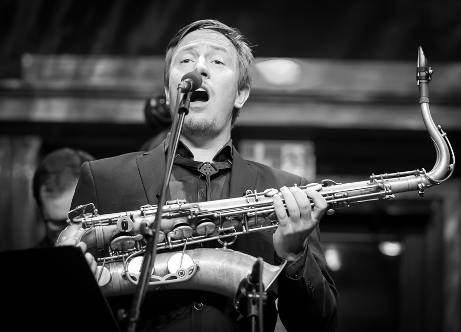 Håkon Kornstad performs "Håkon Kornstad Tenor Battle" at the stage of Sentralen. The concert was part of the Oslo Jazz Festival in Norway and took place on 19. August 2016. Lineup:Håkon Kornstad (saxophone)Sigbjørn Apeland (harmonium)Lars Henrik Johansen (harpsichord)Per Zanussi (double bass)Øyvind Skarbø (drums)